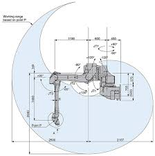 Kawasaki KJ 314 Work Area